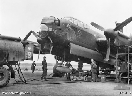 AWM Caption: Lincolnshire, England. 1944-12-05. "Nick" the Nazi Neutralizer, a Lancaster aircraft of No. 463 Squadron RAAF, RAF Station Waddington, which has completed sixty seven operations. Twice this aircraft has returned safely with half the tail plane shot away.